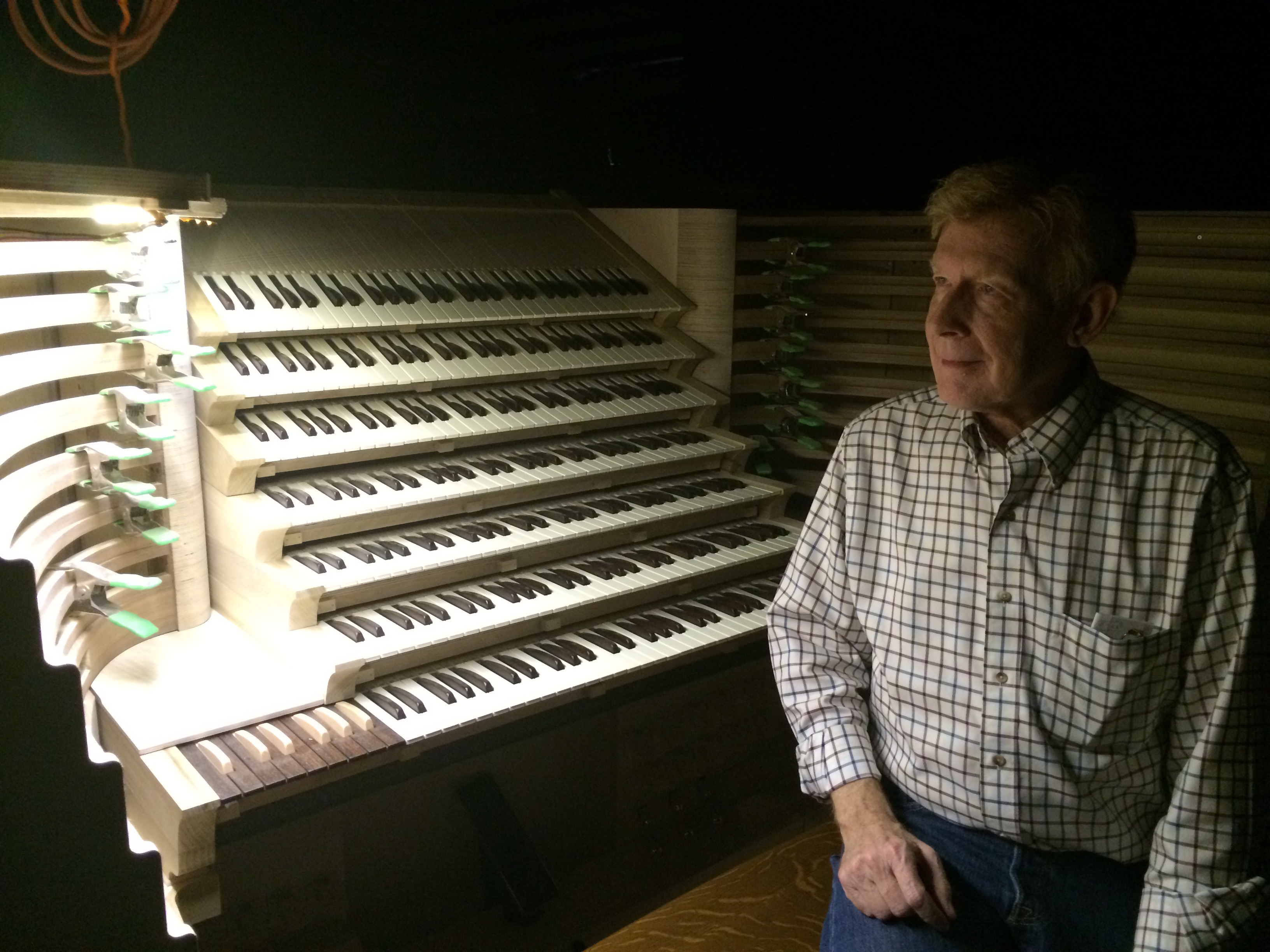 David Hegarty with the seven-manual Castro Symphonic Theatre Organ under construction at the R. A. Colby factory in Johnson City, Tennessee (2015)